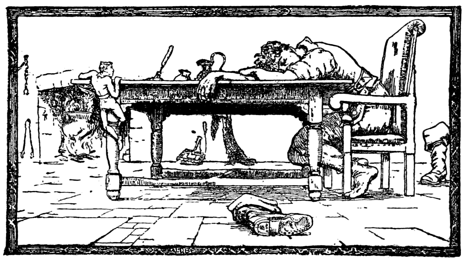 illustration from a book of fairy tales